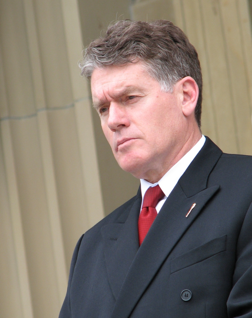 Harry B. Chase, Alberta Liberal MLA for Calgary Varsity, on the steps of the Alberta Legislature, on June 11, 2007.